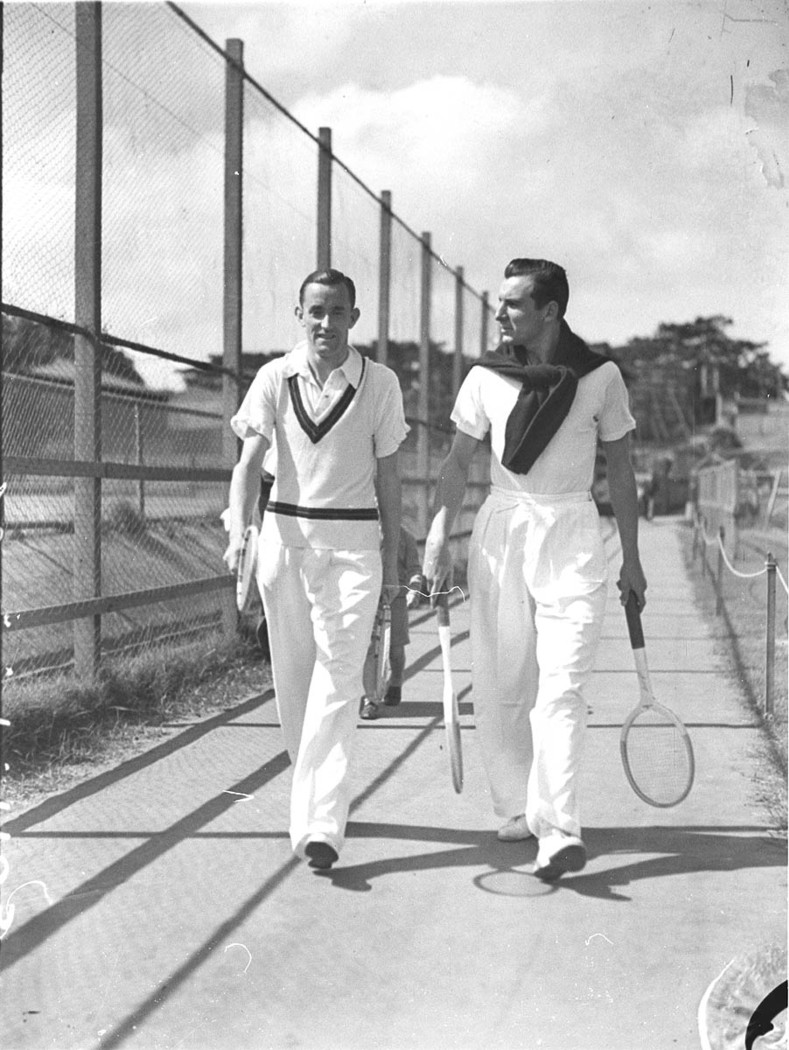 Tennis players G.P. (Pat) Hughes (left) and F.J. Perry (both of Great Britain) at White City, summer 1934-1935 (before the Melbourne Centenary Australian Championships, Kooyong, Jan 1935)